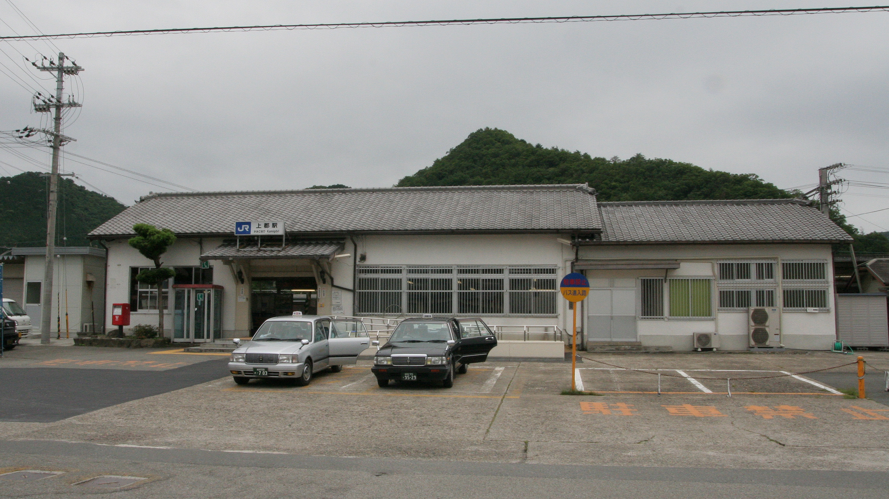 West Japan Railway kamigoori Station